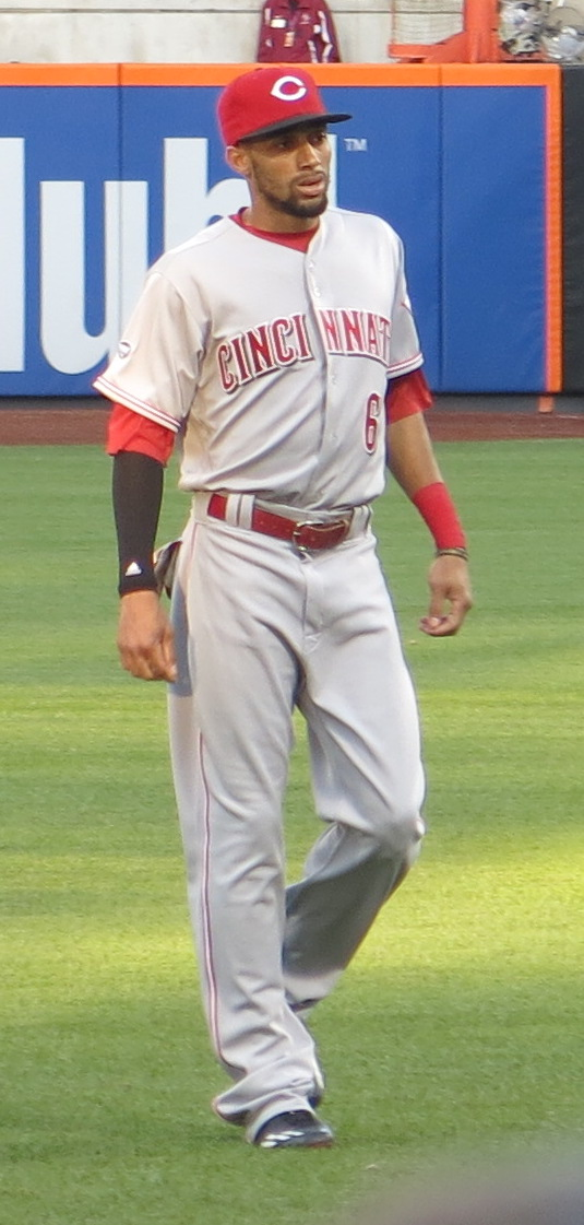 Billy Hamilton with the Cincinnati Reds, April 27, 2016.